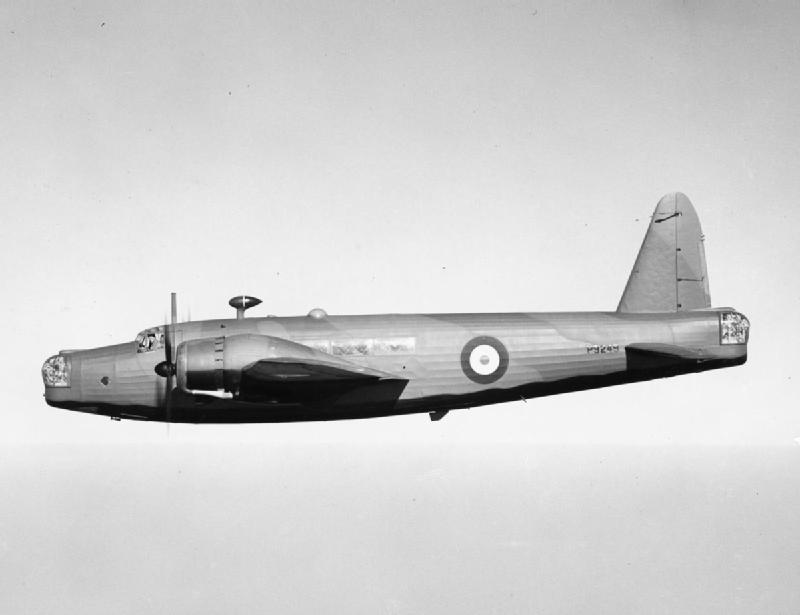 RAF Bomber Command 1940 Vickers Wellington Mk IC P9249 in flight, March 1940.